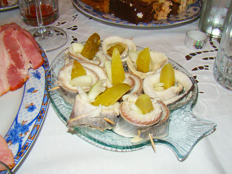 Christmas food of Poland